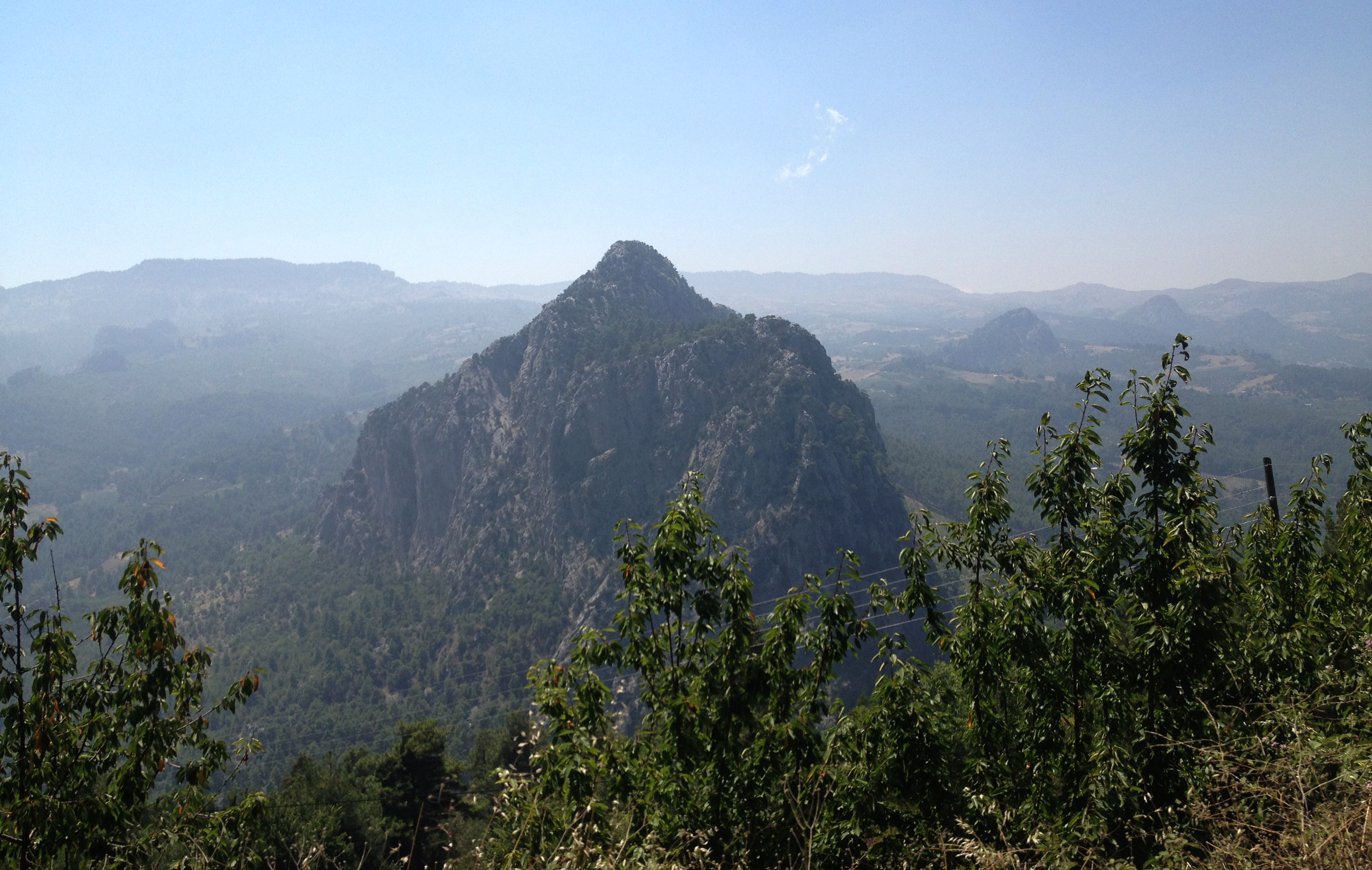 A view of the nature nearby Zeybekler Village of Mersin, Turkey.